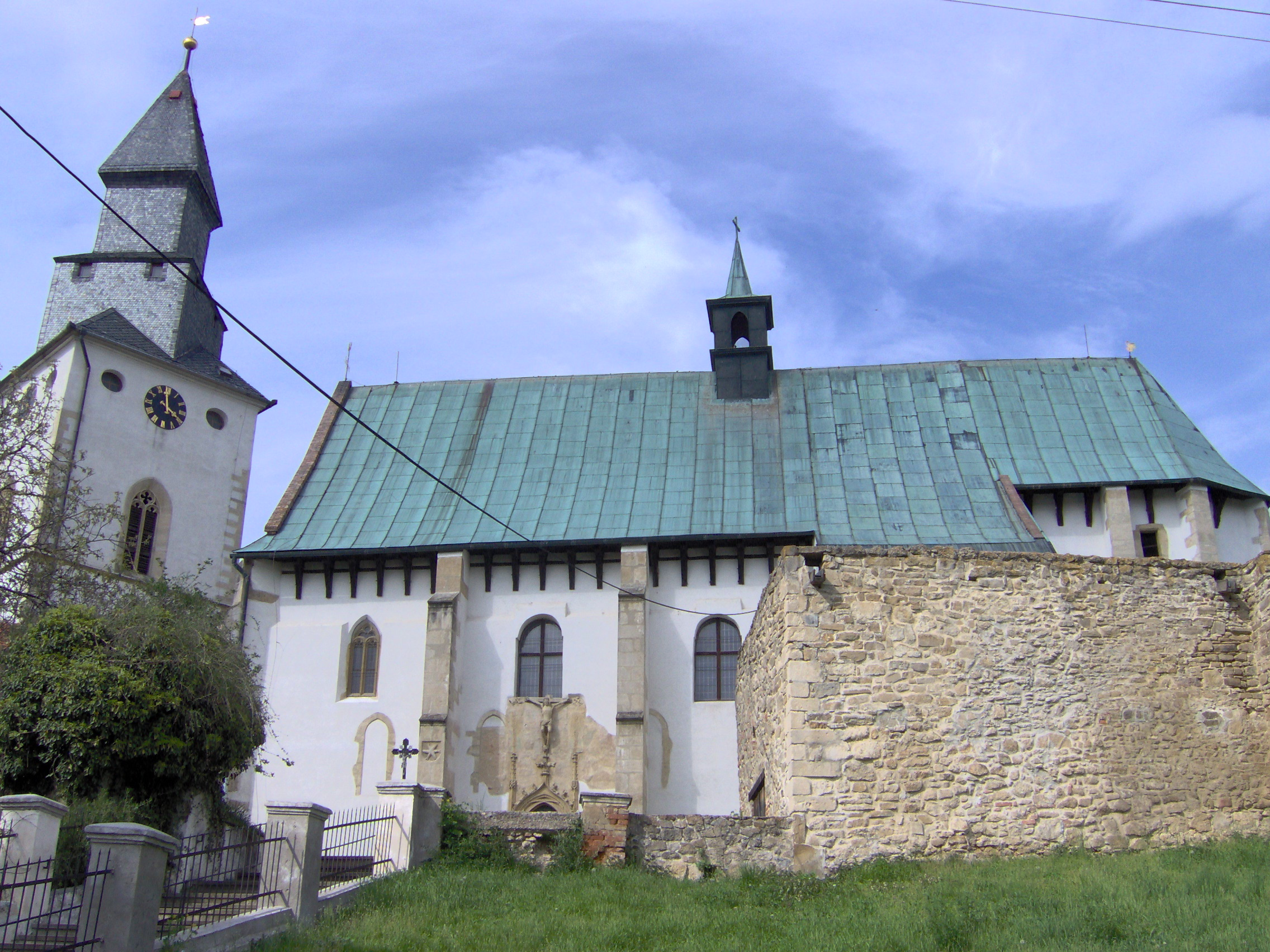 Church of Saint John the Baptist, Kurdějov, Břeclav District, Czech Republic